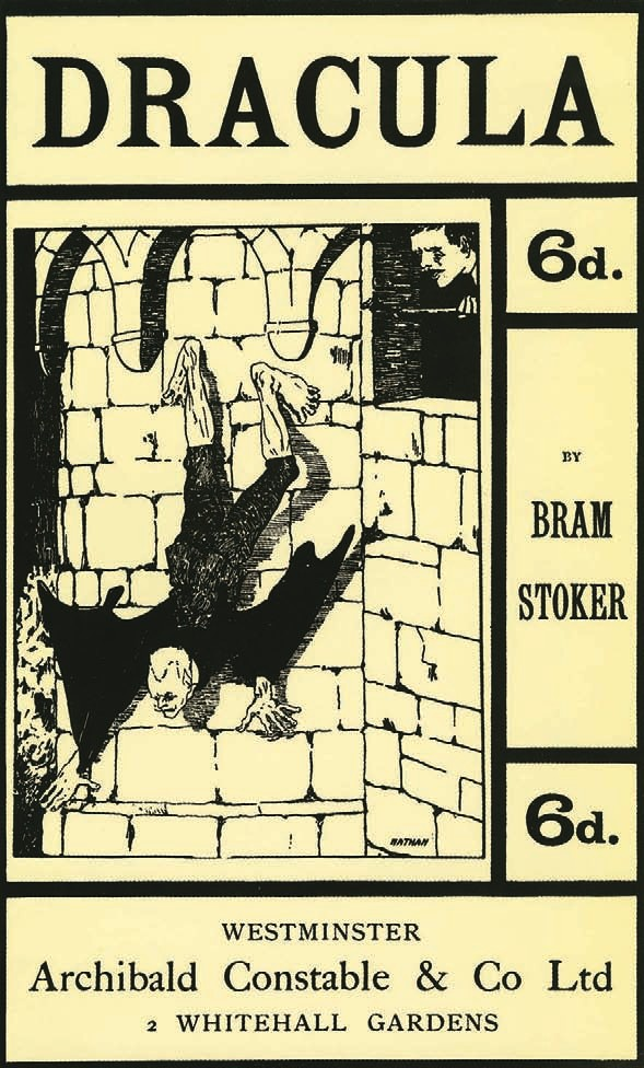 Cover of Dracula, Westminster: Archibald Constable and Company, 1901. First printing of the revised text.